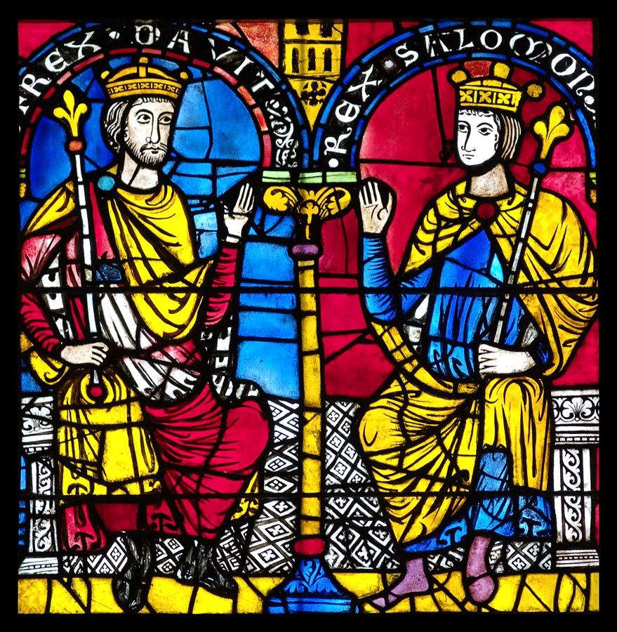 Romanesque stained glass window panel (second half of 12th century): Kings David and Solomon.